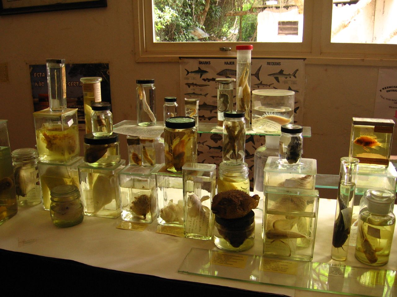 Biological maritime science station on Inhaca Island, Mozambique